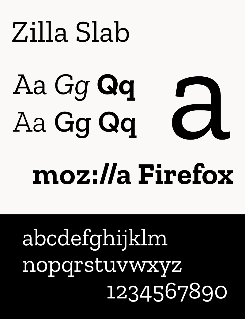 Sample of “Zilla Slab” (typeface made for Mozilla)